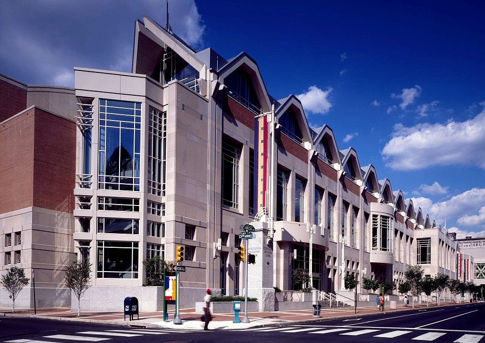 Pennsylvania Convention Center, northeast corner 13th & Arch Streets, Philadelphia, Pennsylvania.